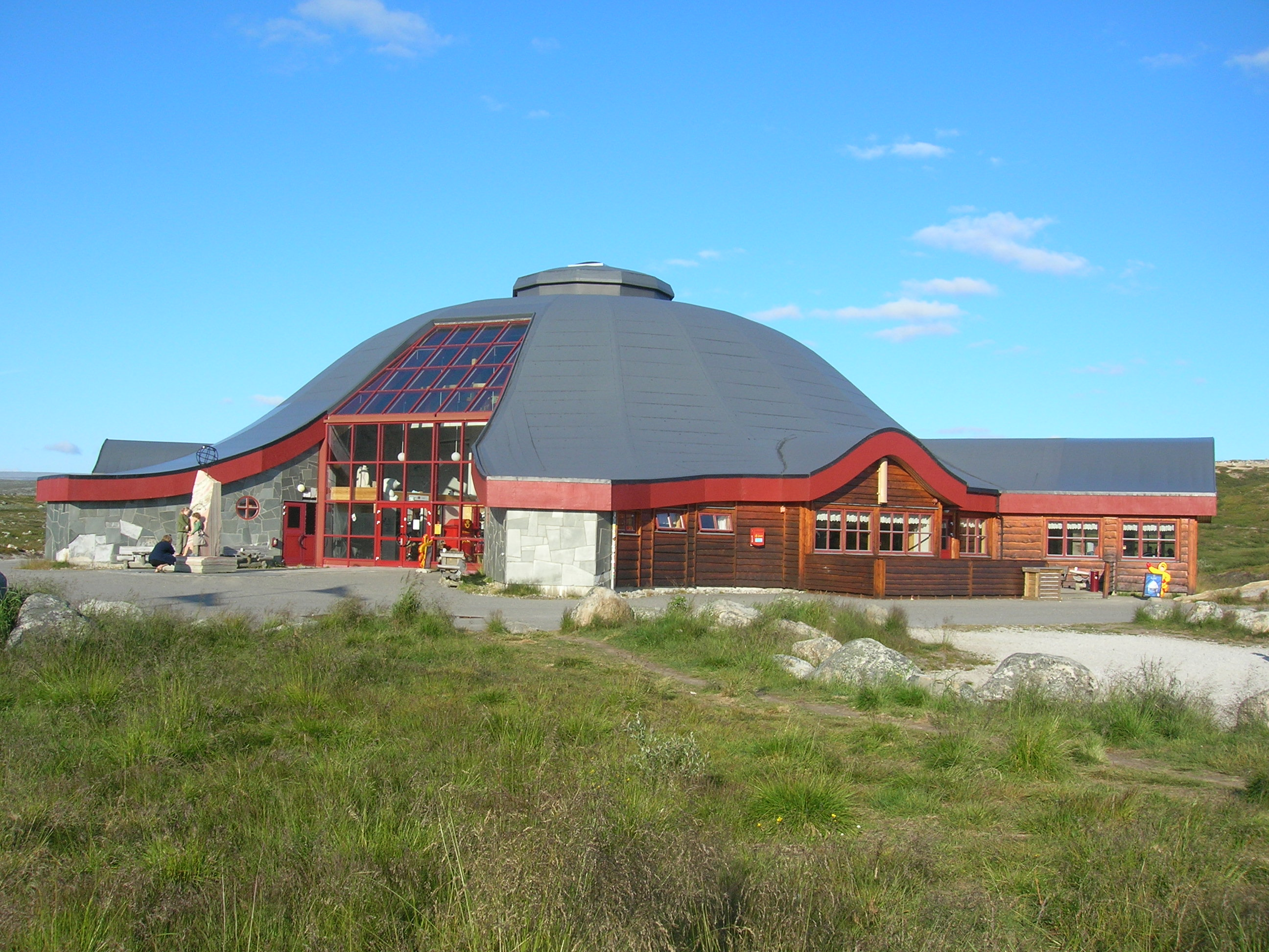 Arctic circle center on Saltfjellet, Norway. The Arctic circle on Saltfjellet, Rana municipality, Norway. Photo on 16 August, 2008 with a Nikon Coolpix 5600 5,1 Megapixel camera.